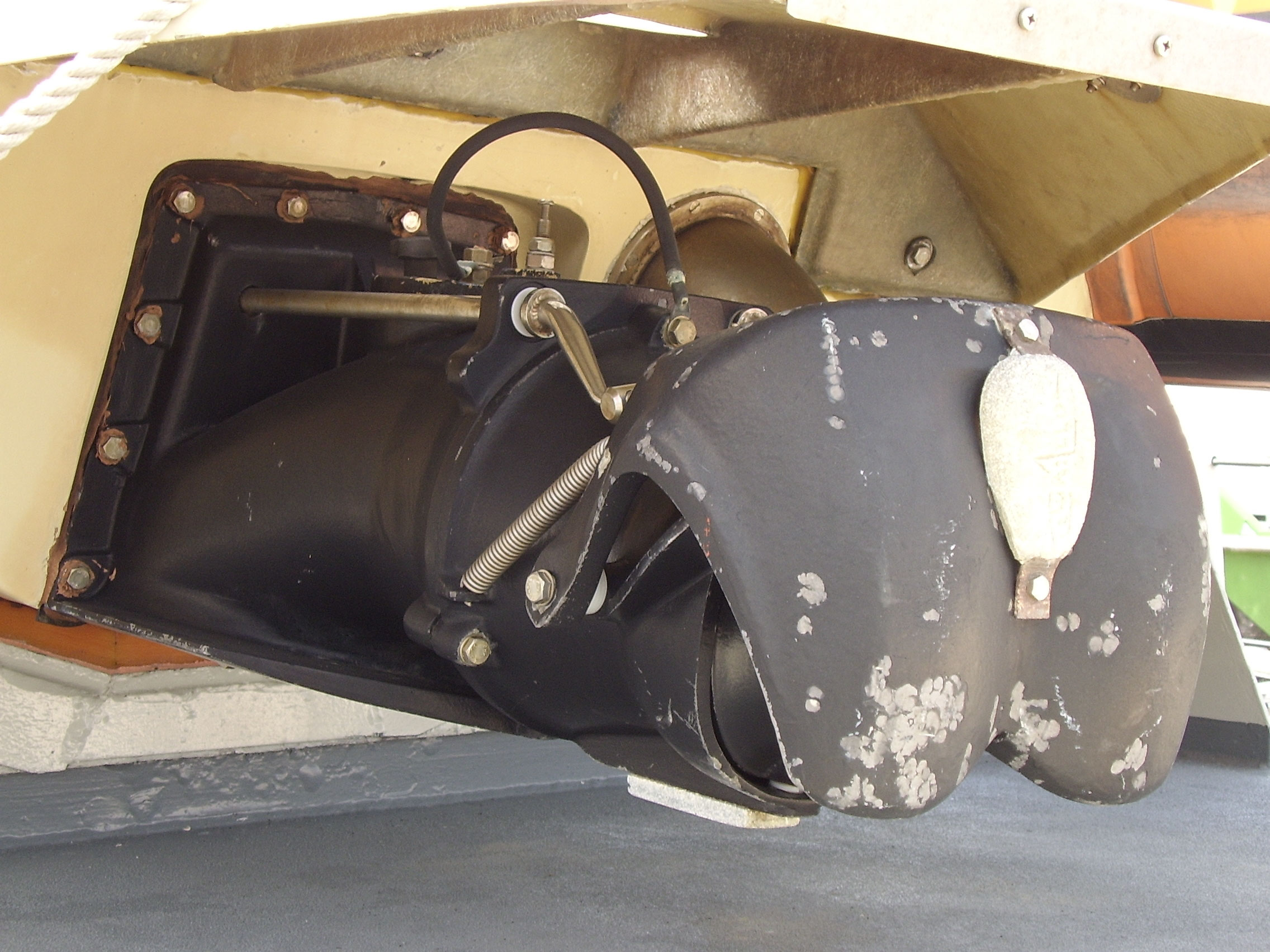 Water jet propulsion on a police boat Date: August 14th 2005 Photographer: Doclecter